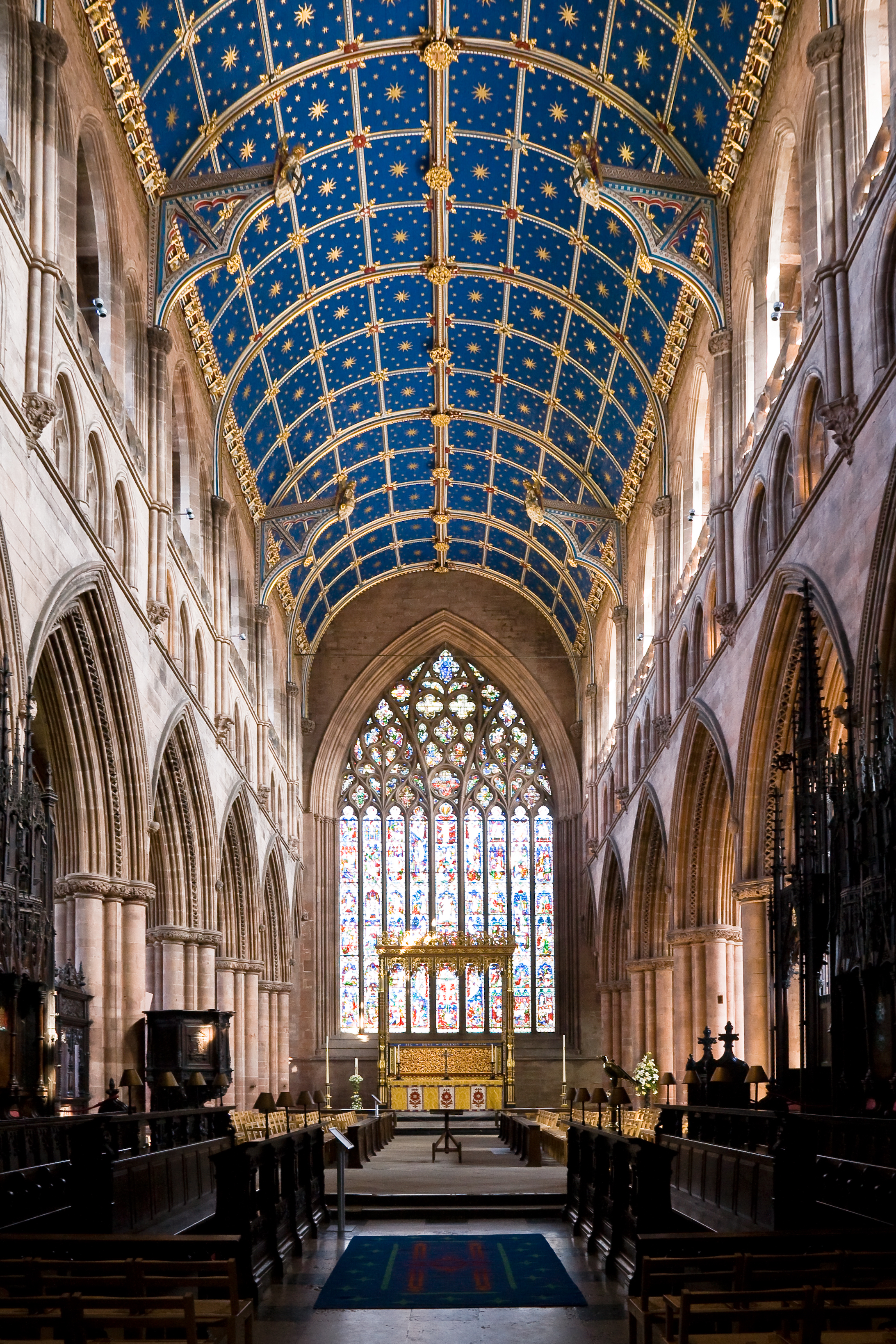 The nave of the Carlisle Cathedral, Cumbria, England.